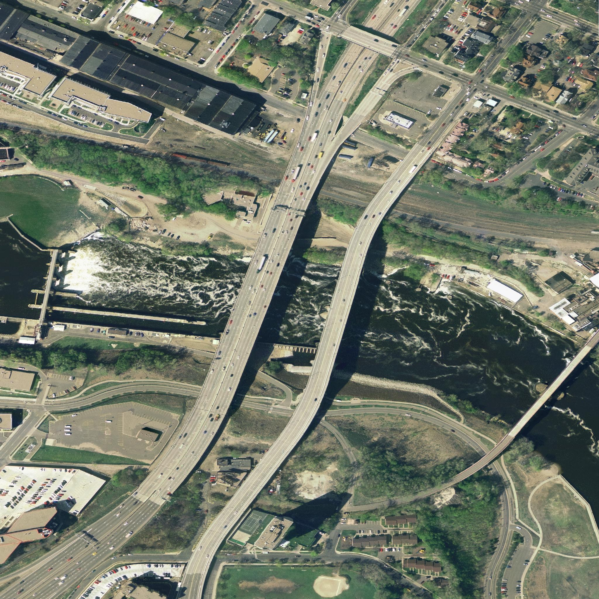 Aerial view of the I-35W Mississippi River Bridge in Minneapolis, Minnesota, and the surrounding area. The bridge collapsed in August, 2007. Just to its right is the older 10th Avenue Bridge, and at the far right is the Northern Pacific Bridge Number 9. At the left is the Lower Saint Anthony Falls Dam.